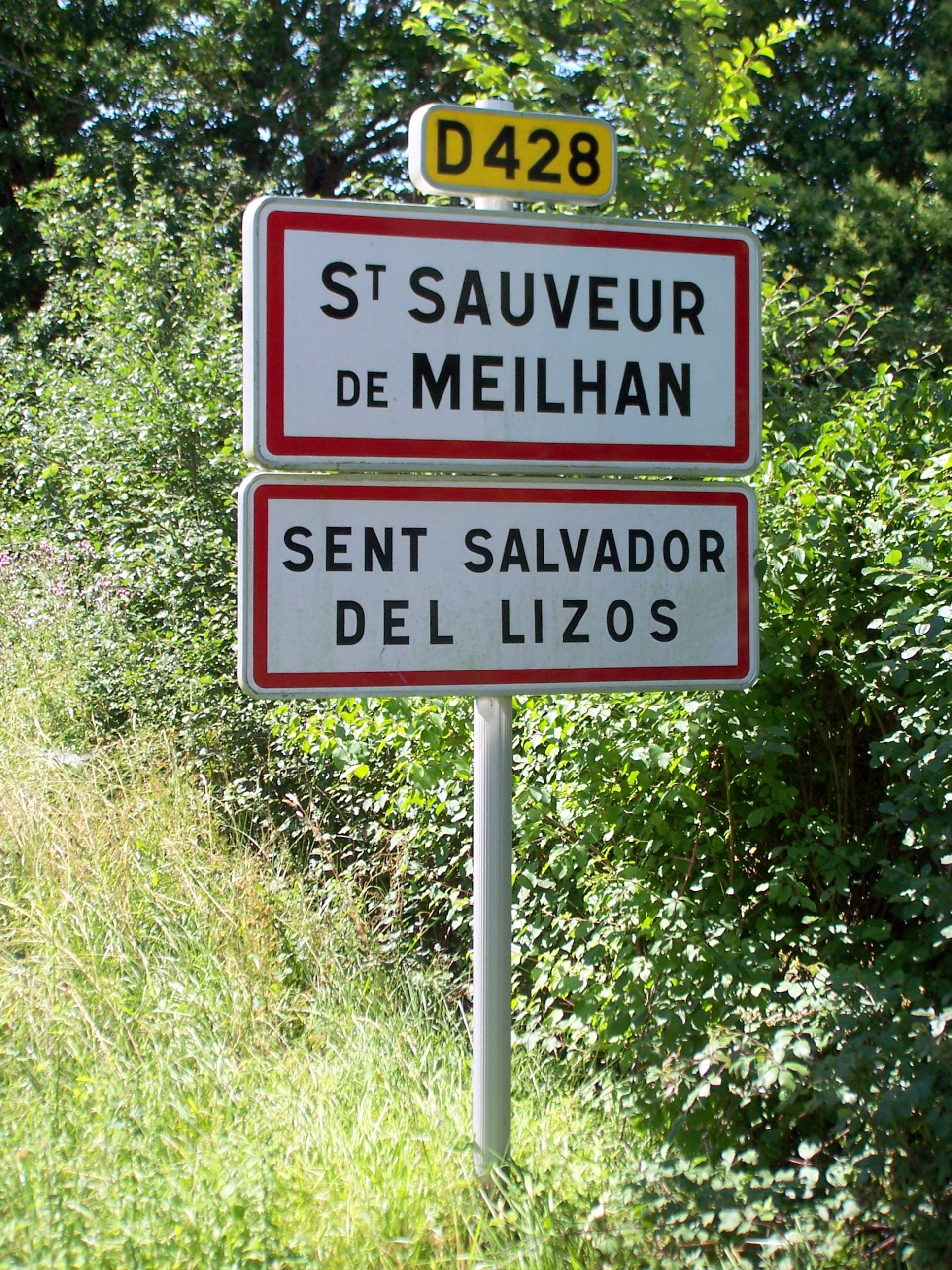 Signs at the entrance of the village in french and de village en français/occitan à Saint-Sauveur-de-Meilhan (Lot-et-Garonne, France)